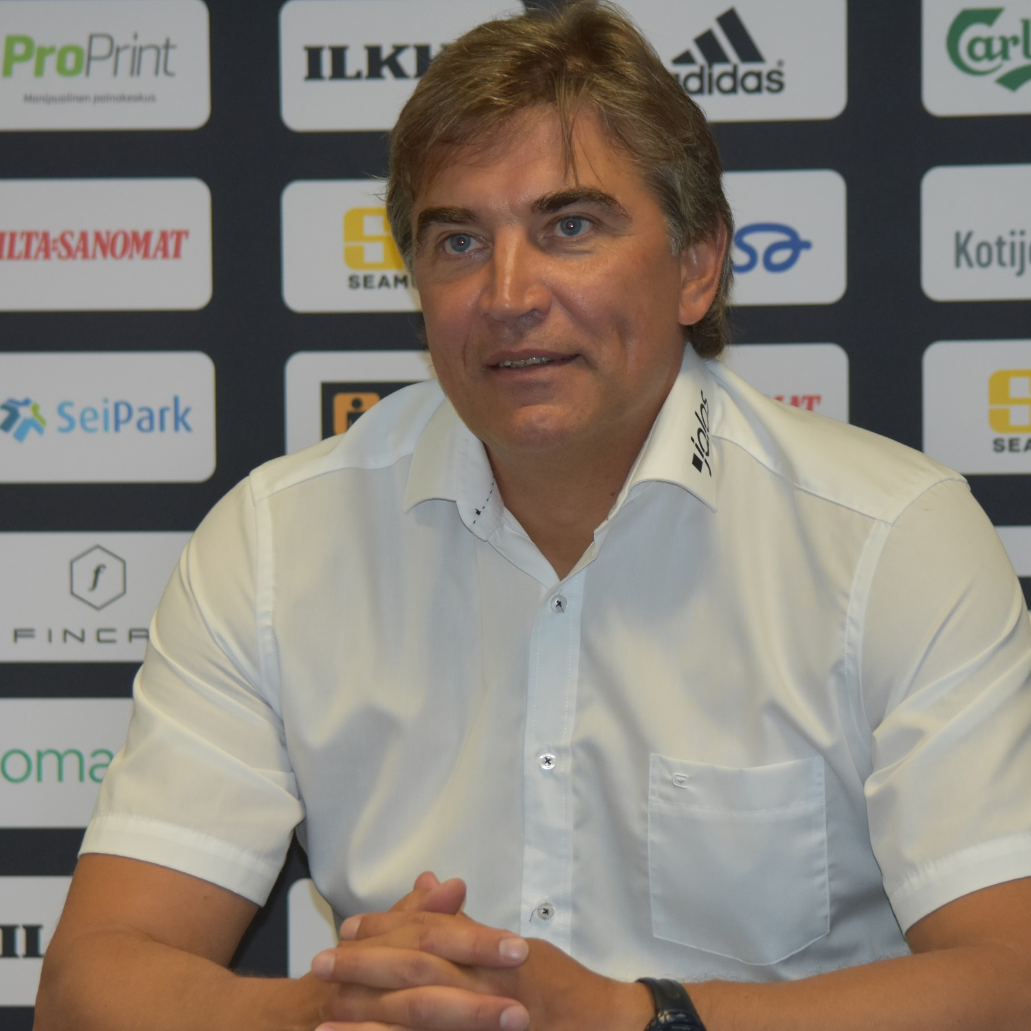 Association football coach Aleksei Borisovich Yeryomenko (SJK)